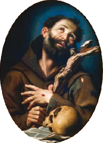 St. Francis of Assisilabel QS:Len,"St. Francis of Assisi" label QS:Lde,"St. Franziskus von Assisi" label QS:Lpt,"São Francisco de Assis"